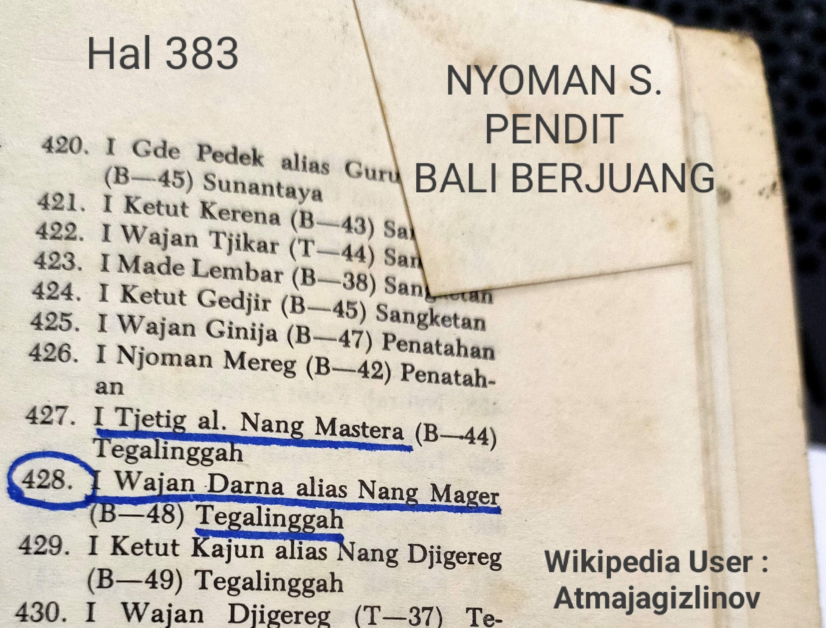 pahlawan bali yang juga ikut memerdekakan indonesia